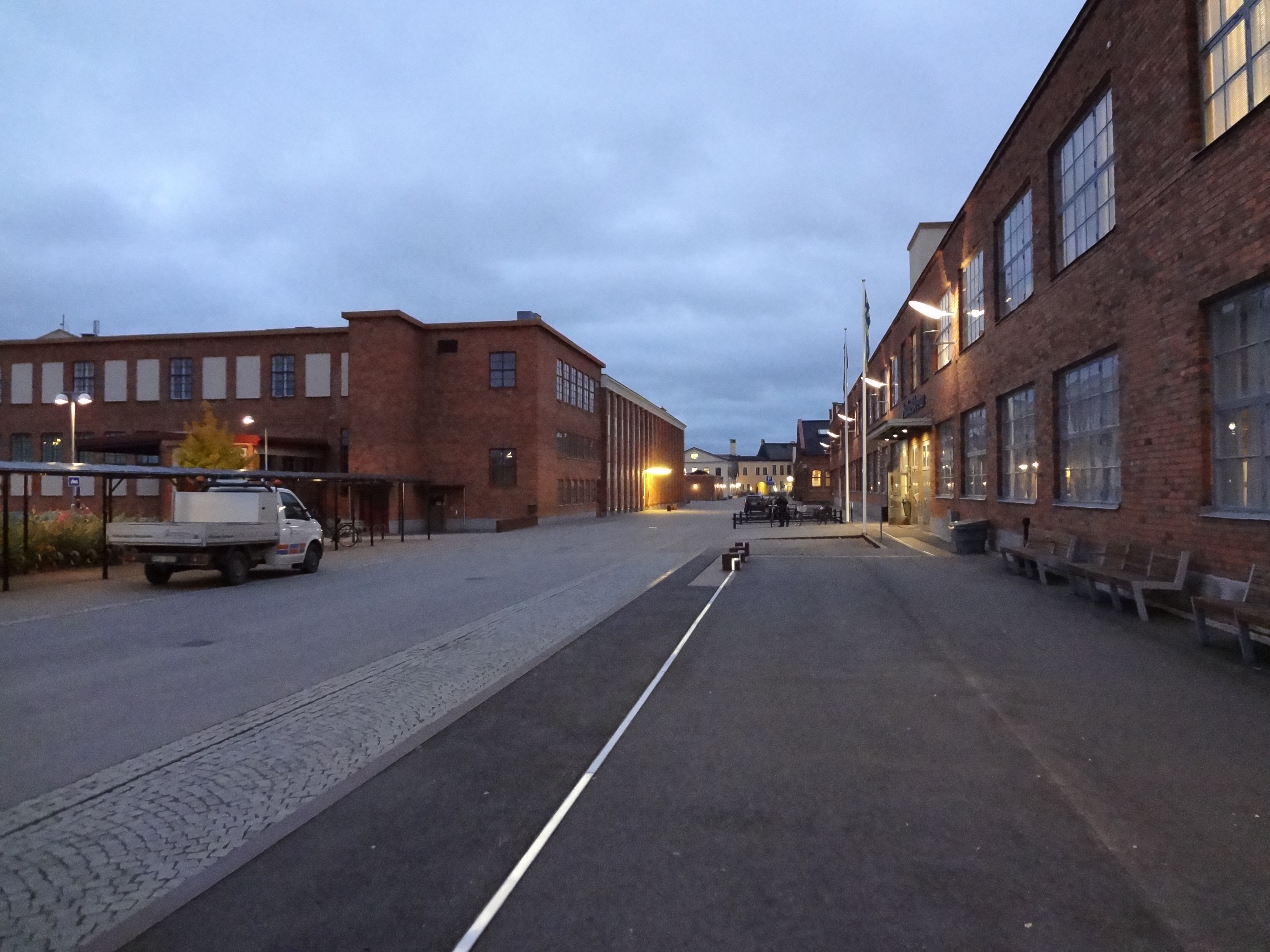 Munktellstaden Eskilstuna.